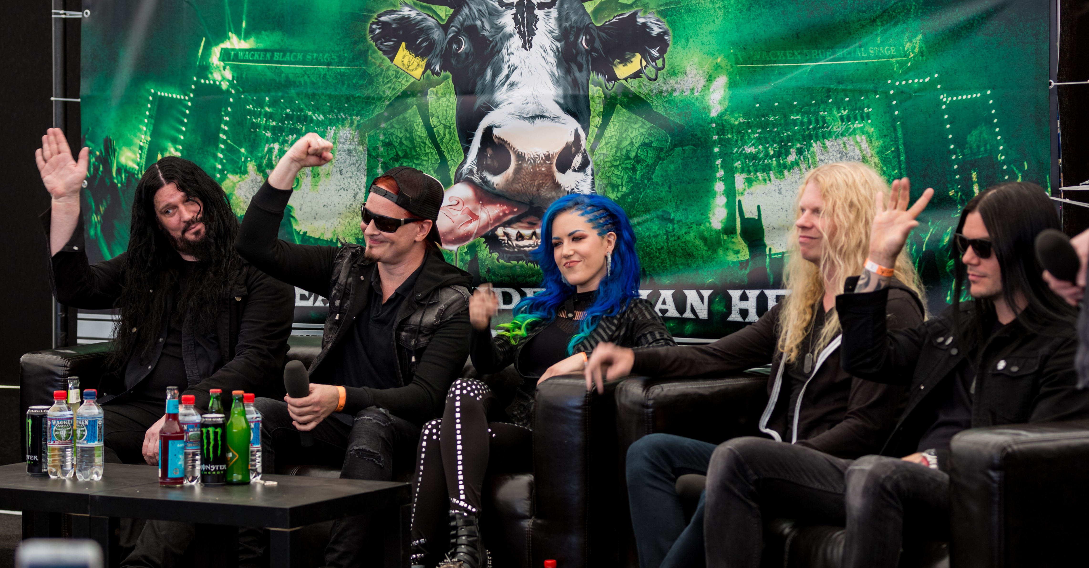 A cropped version of File:Arch Enemy - Wacken Open Air 2016-AL2116.jpg